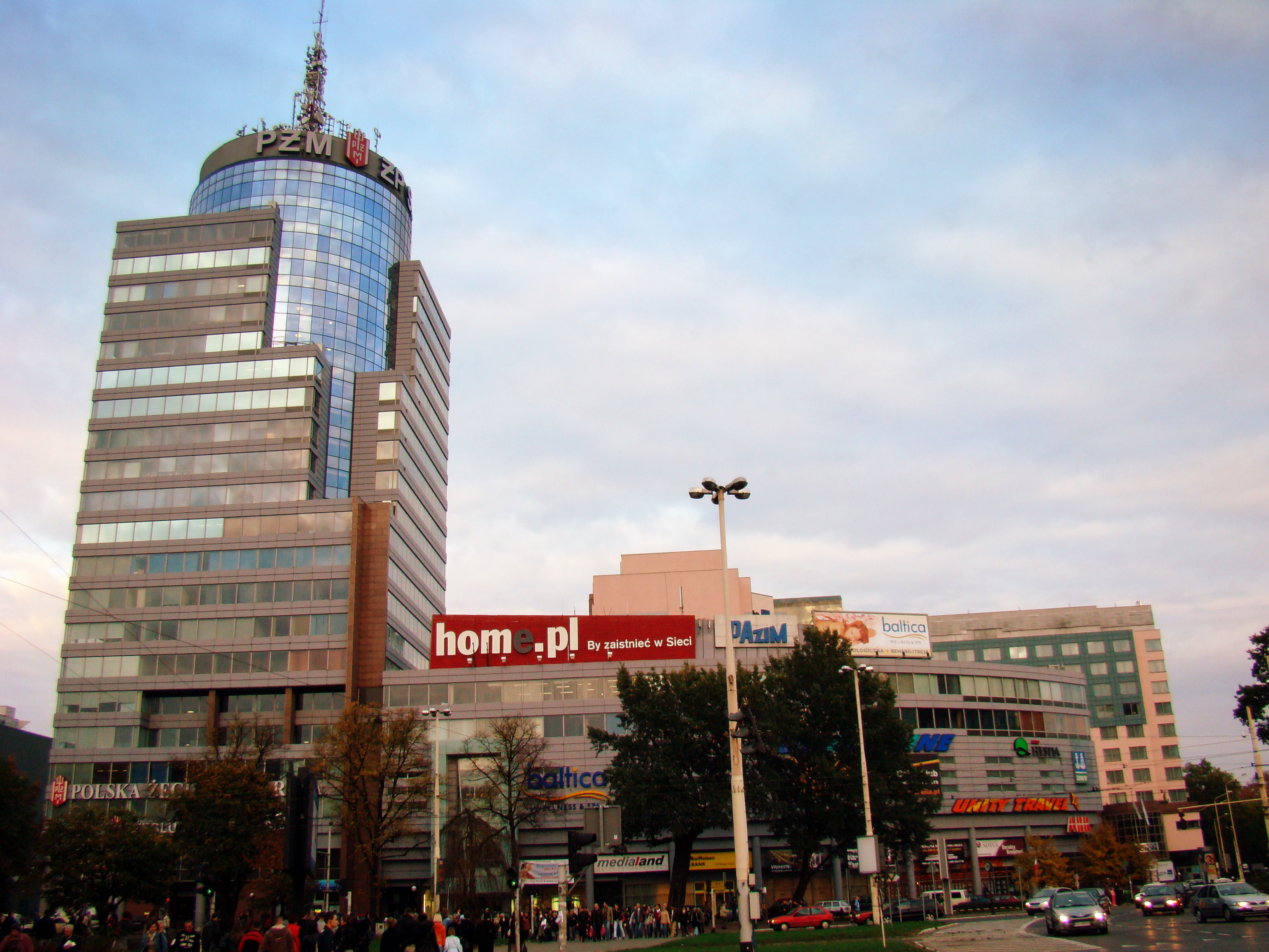 PAZIM skyscraper, Szczecin, Poland